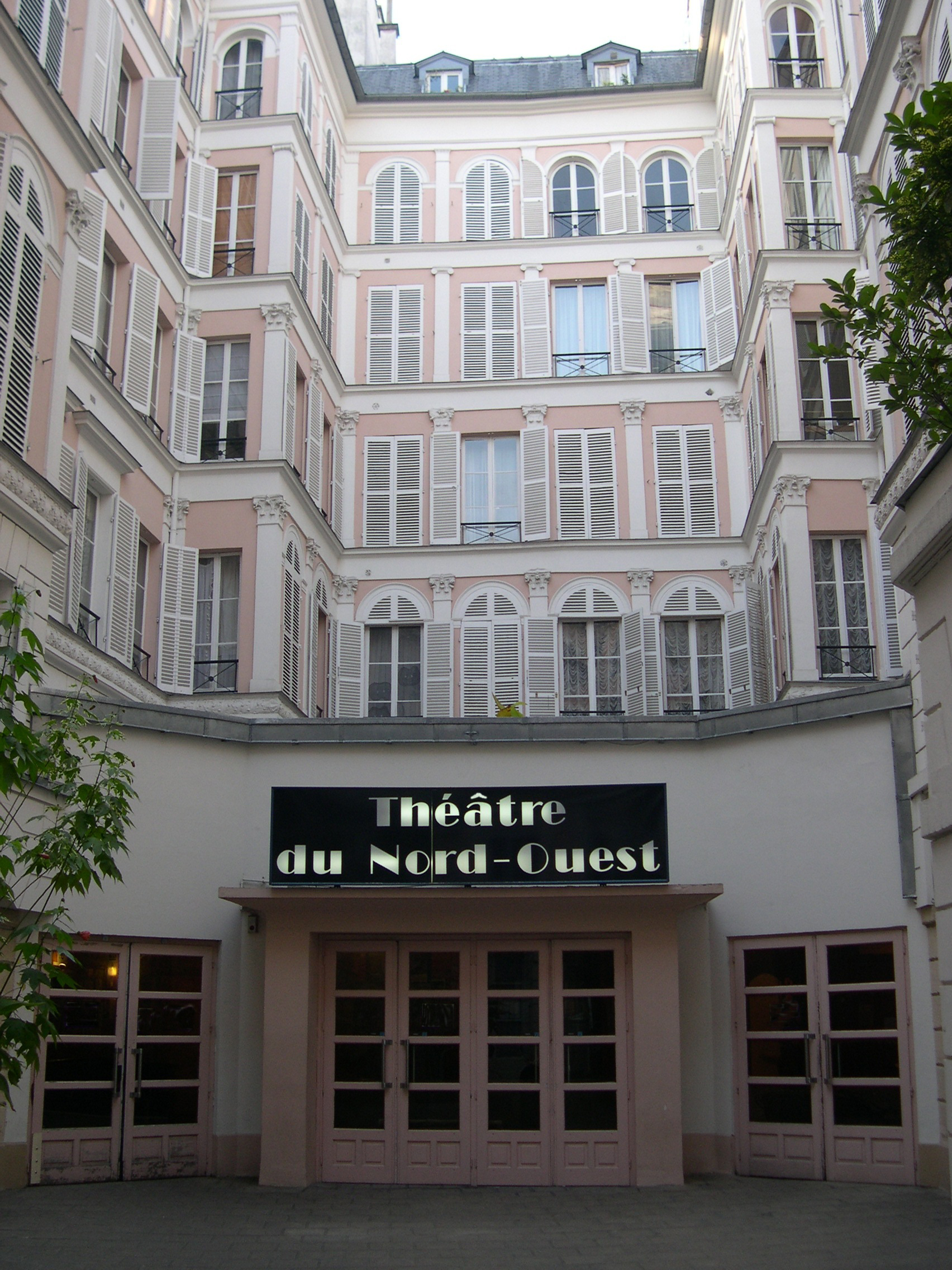 picture of the façade of the Paris theatre "Théâtre du Nord-Ouest"